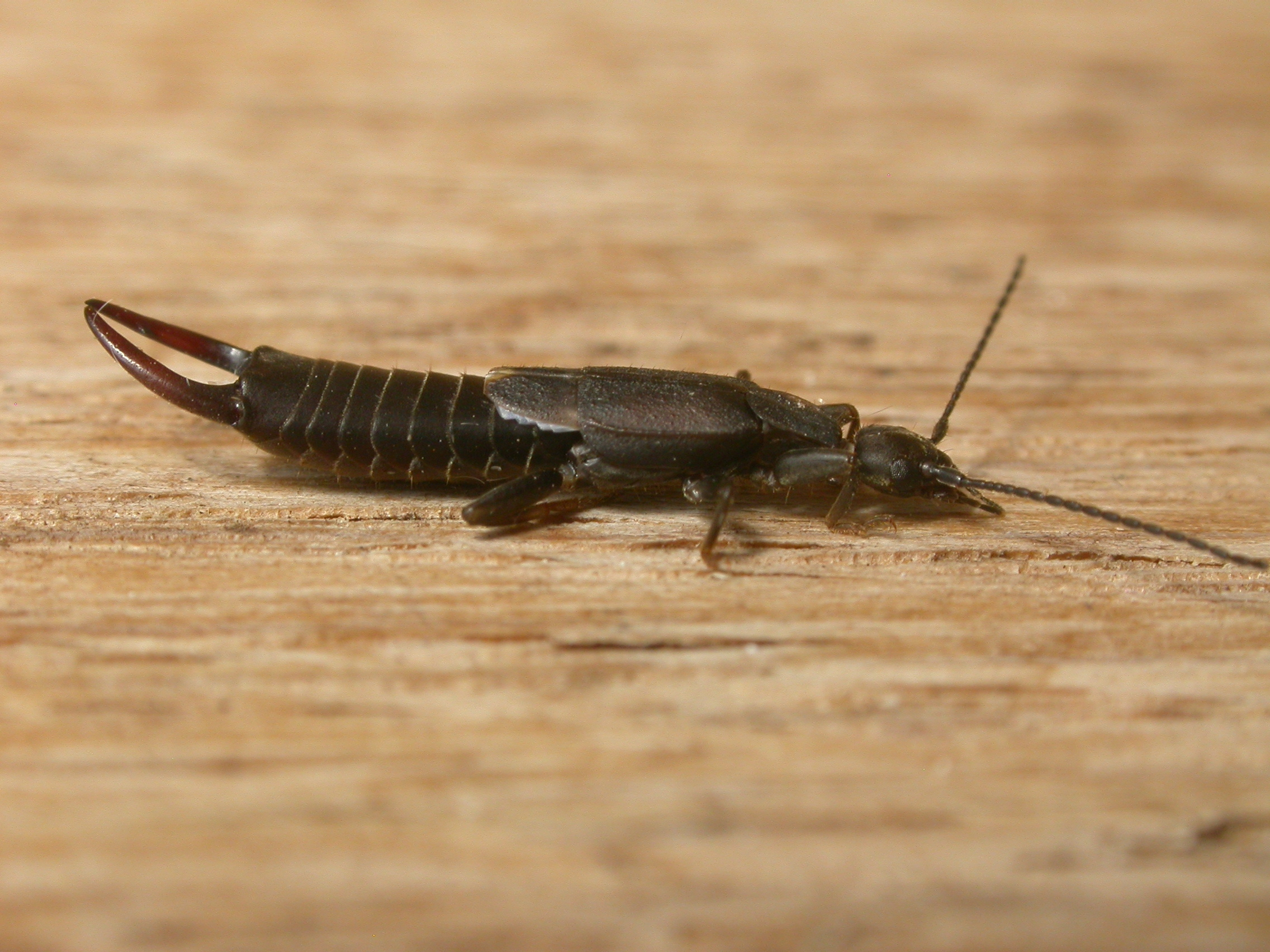 Nala lividipes (Dufour), to MV light, Aranda, ACT, 20/21 March 2010